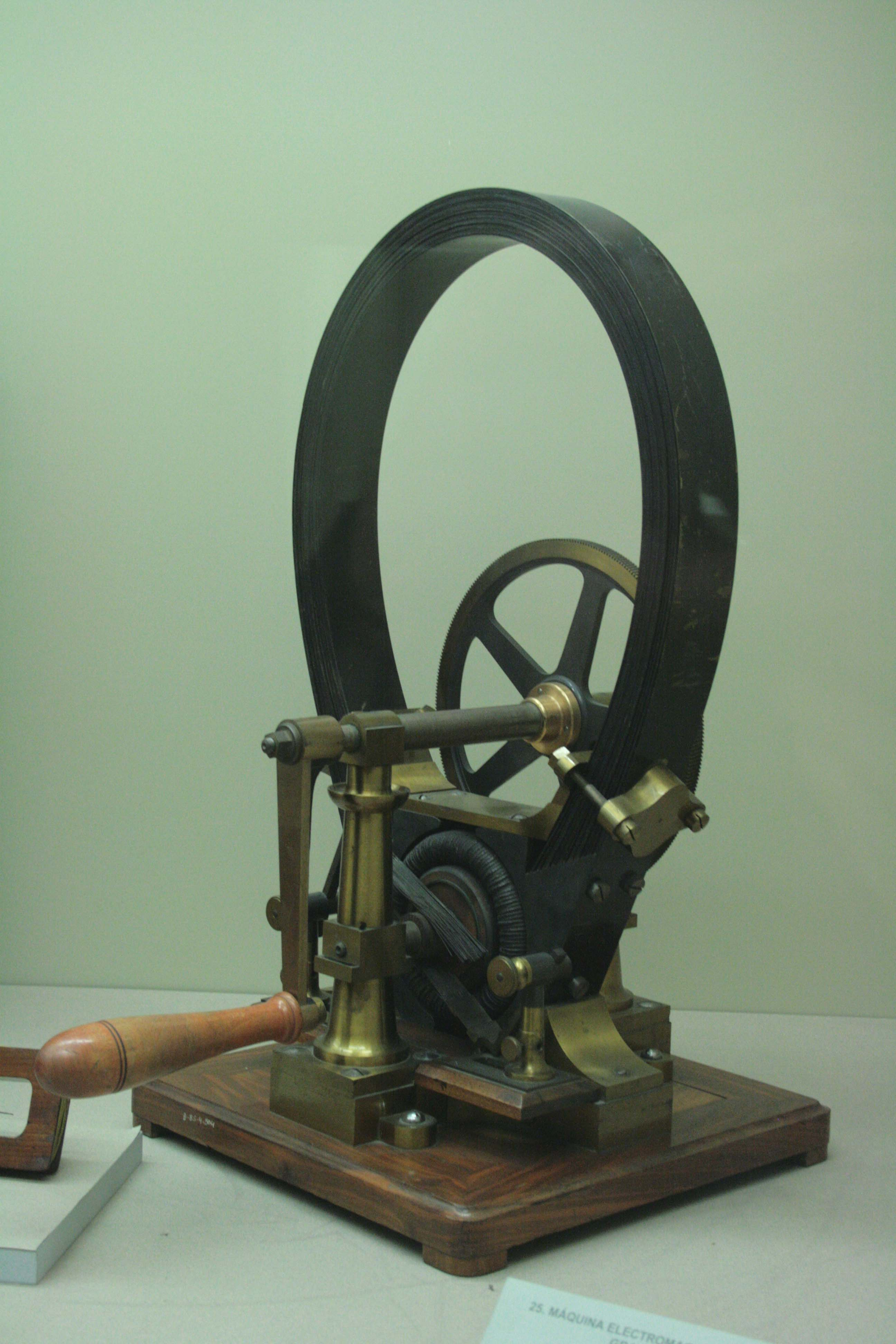 The Gramme machine or Gramme dynamo, an electrical generator designed by Belgian inventor Zénobe Gramme in 1871. It was the first machine to be used industrially to generate power. His innovation was to use many armature windings, wound on a doughnut shaped armature, and switched with a many segmented commutator, to smooth the output waveform, producing nearly constant DC power. This shows a hand cranked model from the 1870s designed for use in laboratories, it's output was equivalent to "eight ordinary Bunsen elements [batteries]". It used laminated permanent magnets invented by Jamin.